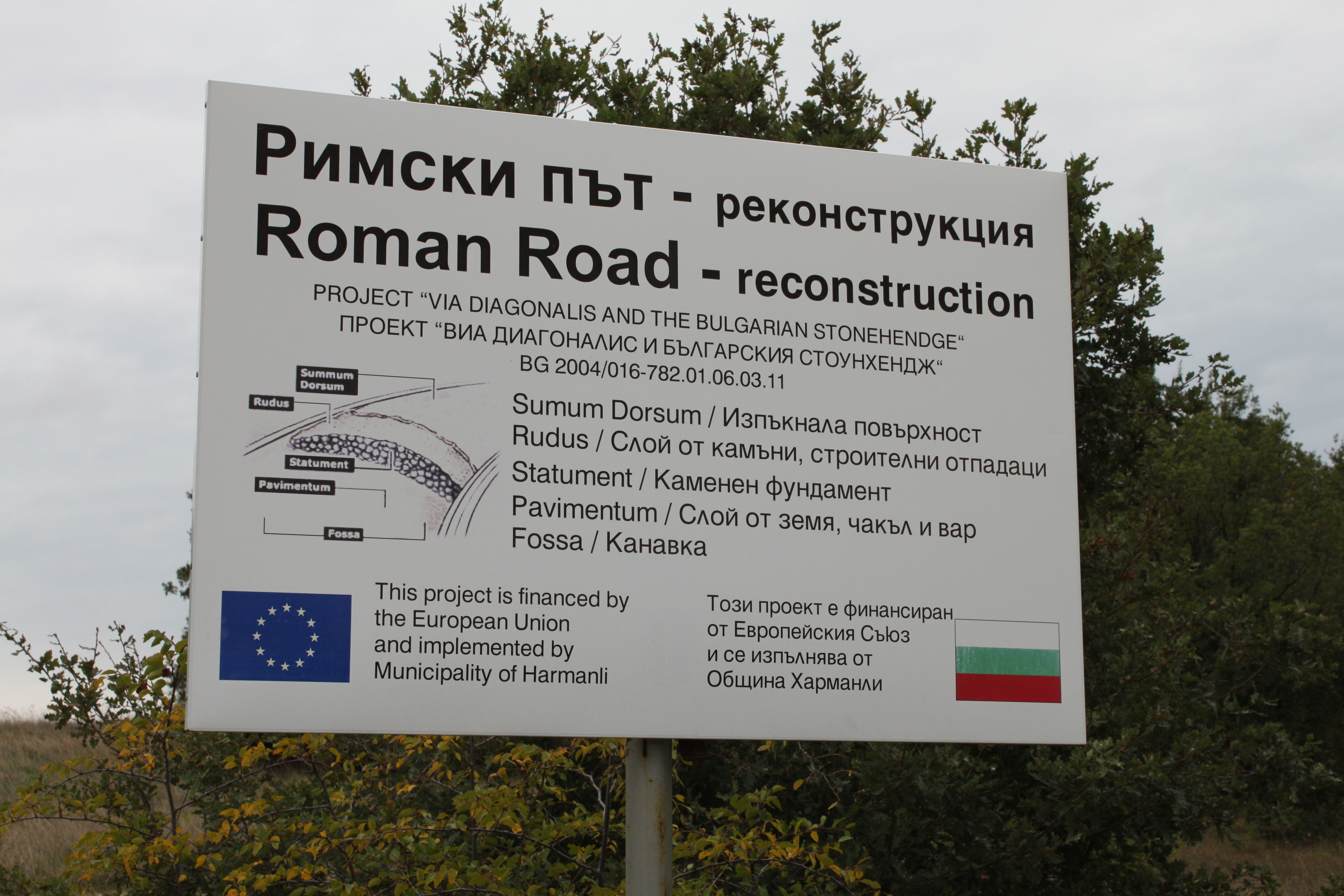 Castra rubra, Bulgaria